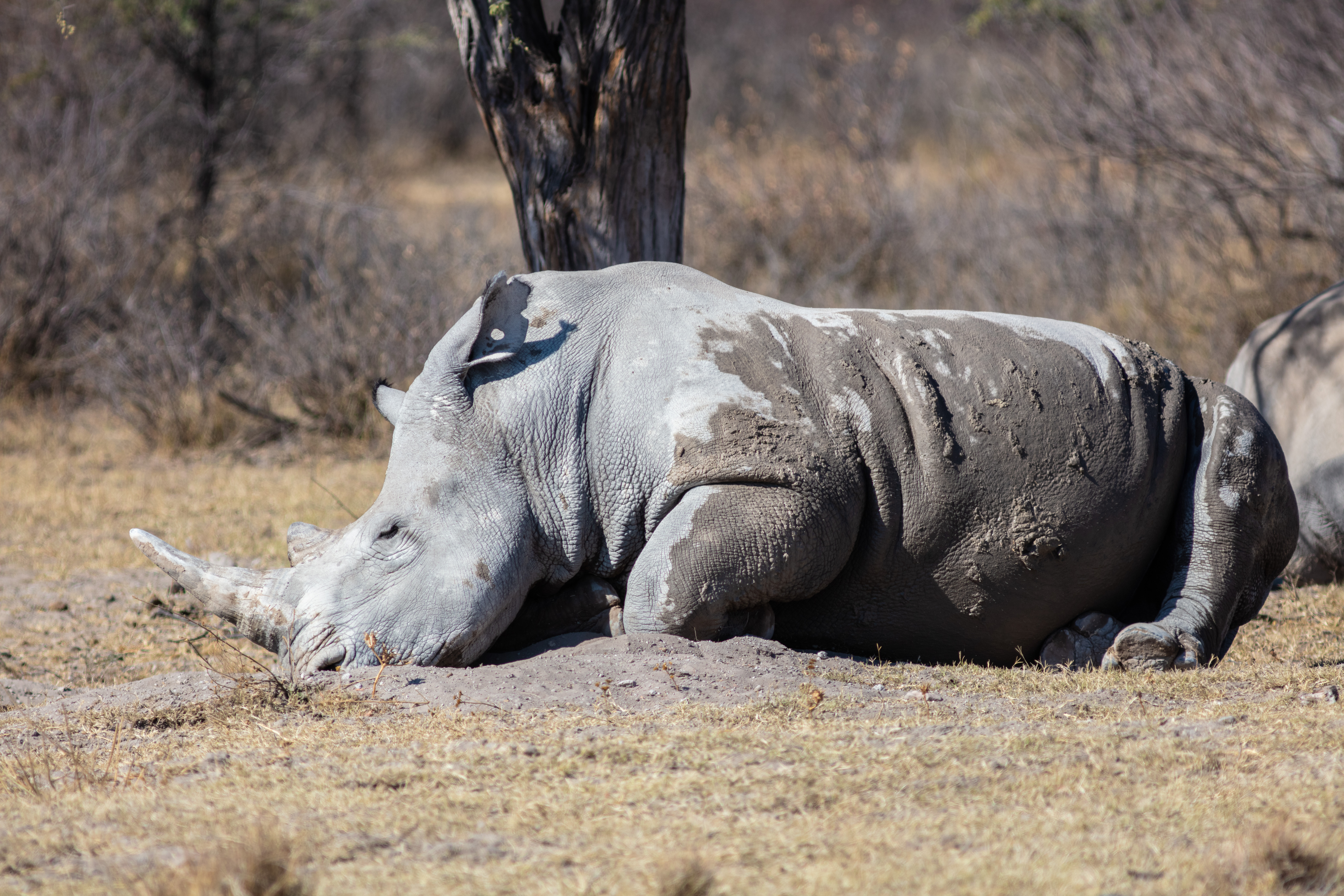 White rhinoceros (Ceratotherium simum), Khama Rhino Sanctuary, Botswana